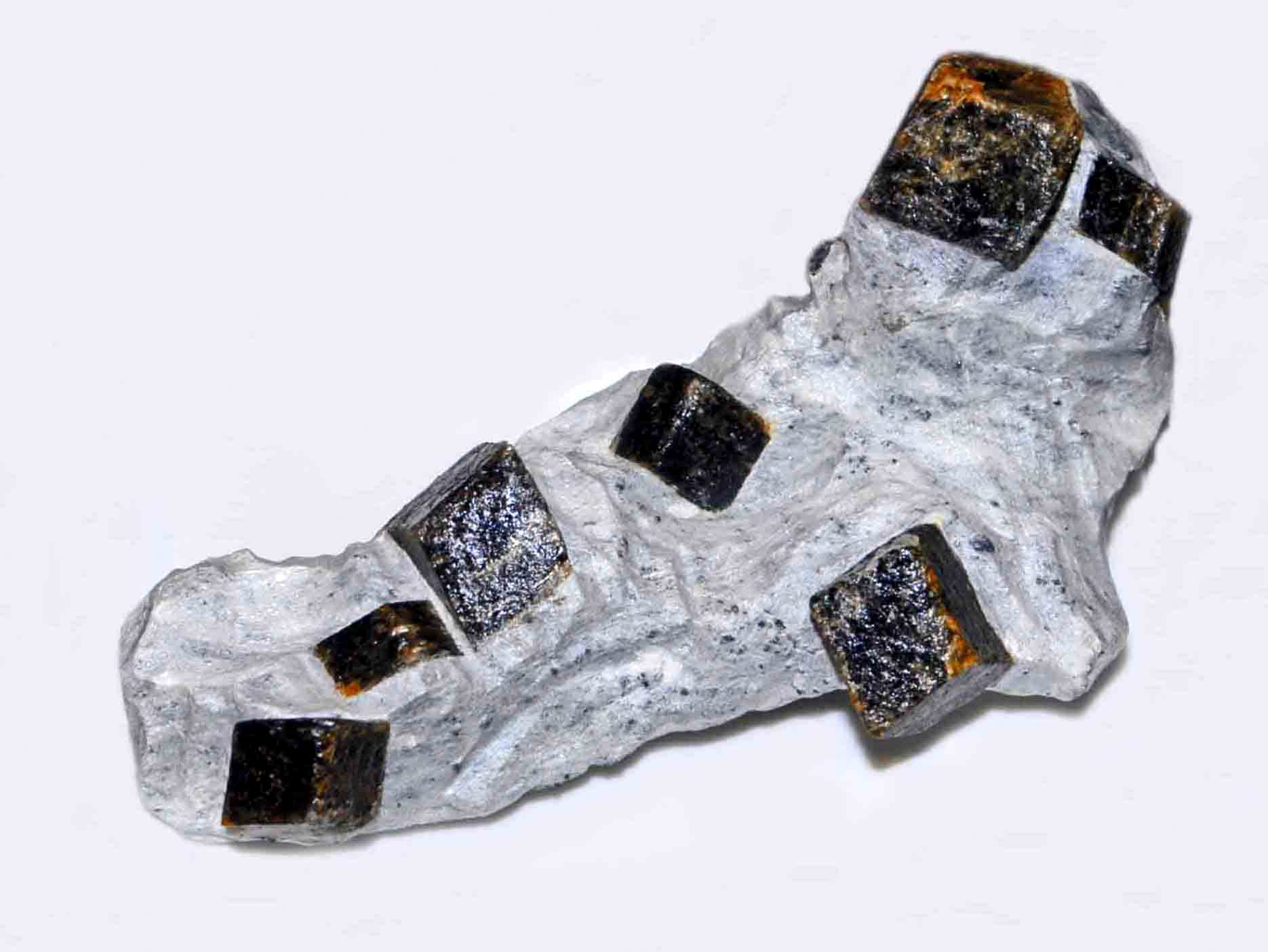 Breunnerite from Bolzano. Italy